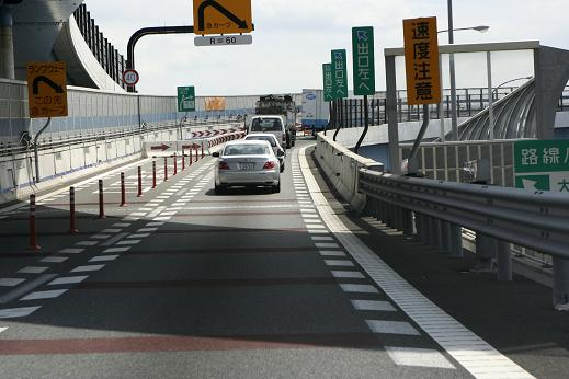 On ramp for Keiji By-pass